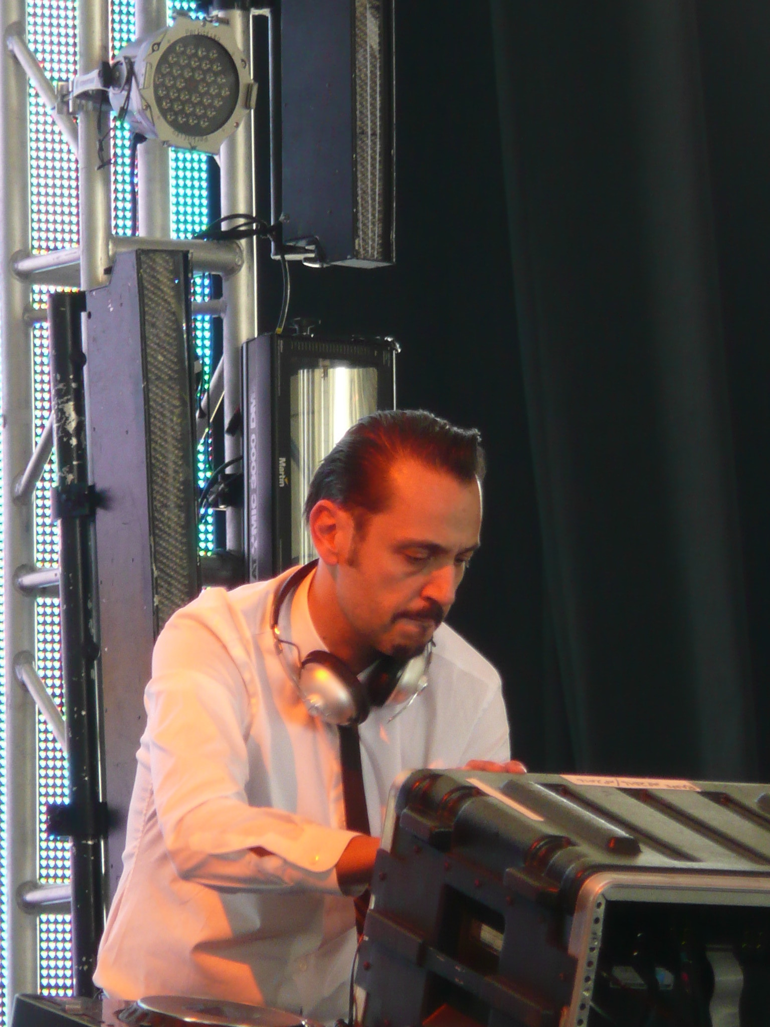 Dimitri from Paris at Coachella Valley Music and Arts Festival (2008)